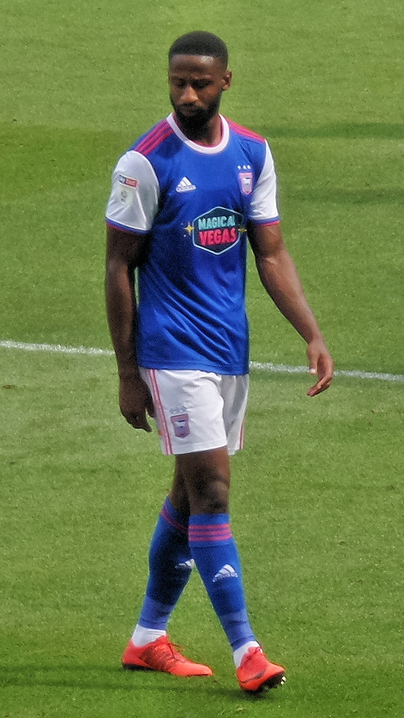 Janoi Donacien on his Ipswich Town debut against Blackburn Rovers on 4 August 2018